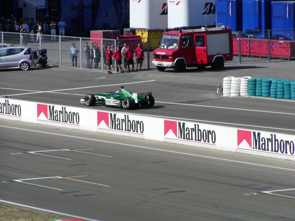 Mark Webber (Jaguar) leaving pits at the 2003 Hungarian Grand Prix.